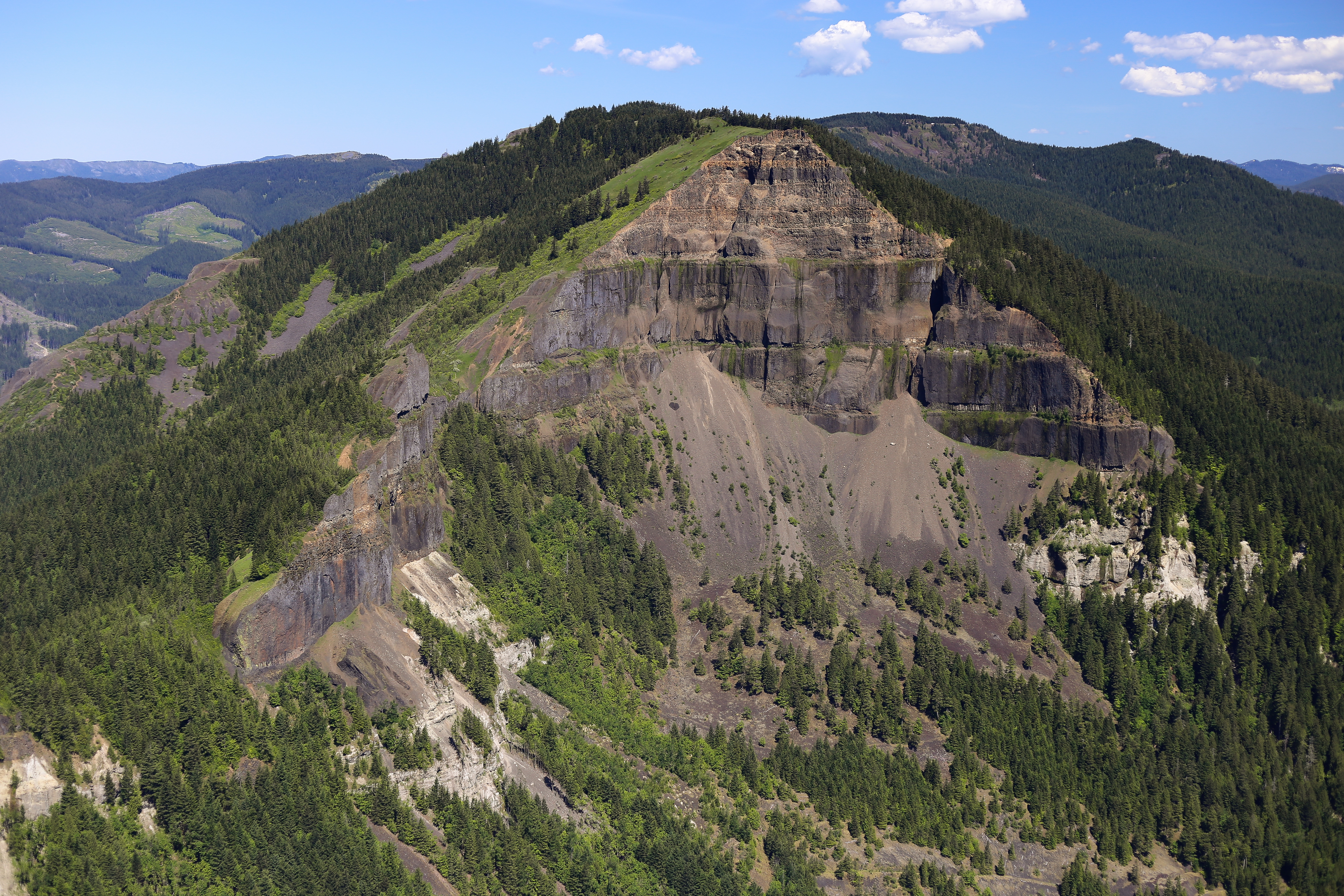 The southern face of Table Mountain where the Bonneville Slide occurred.